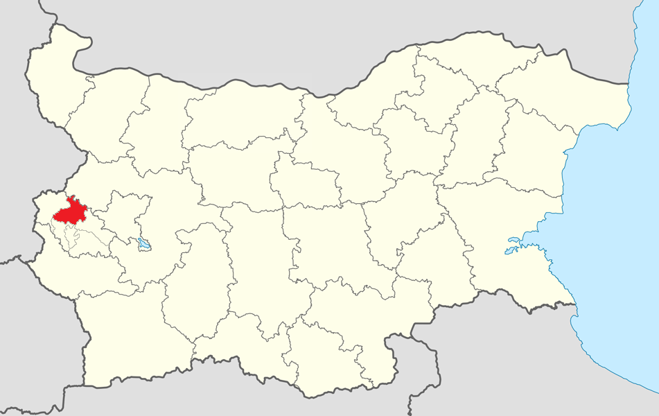 Location map of Breznik Municipality within Bulgaria and Pernik province